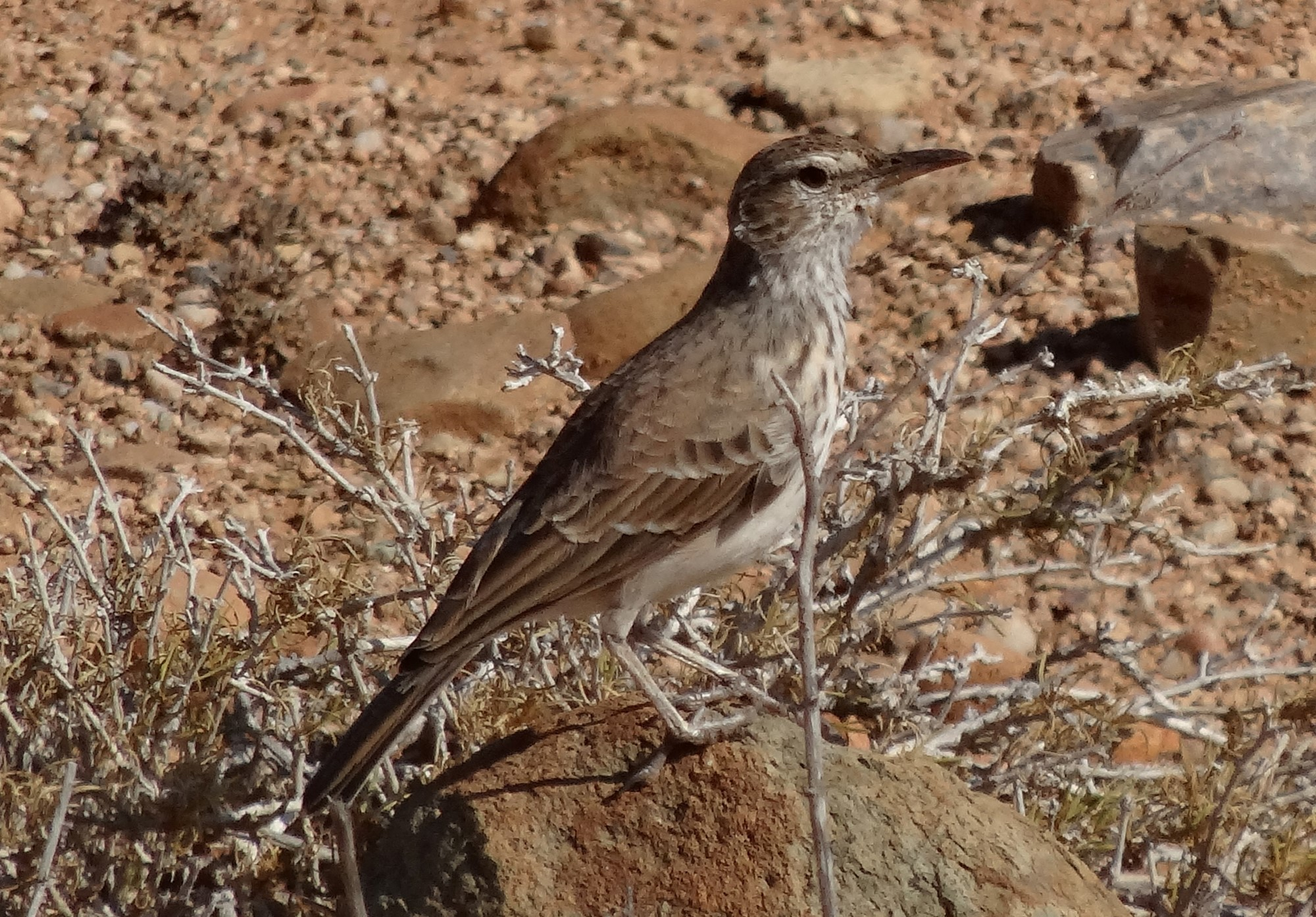 Benguela long-billed lark in Namibe Province, Angola